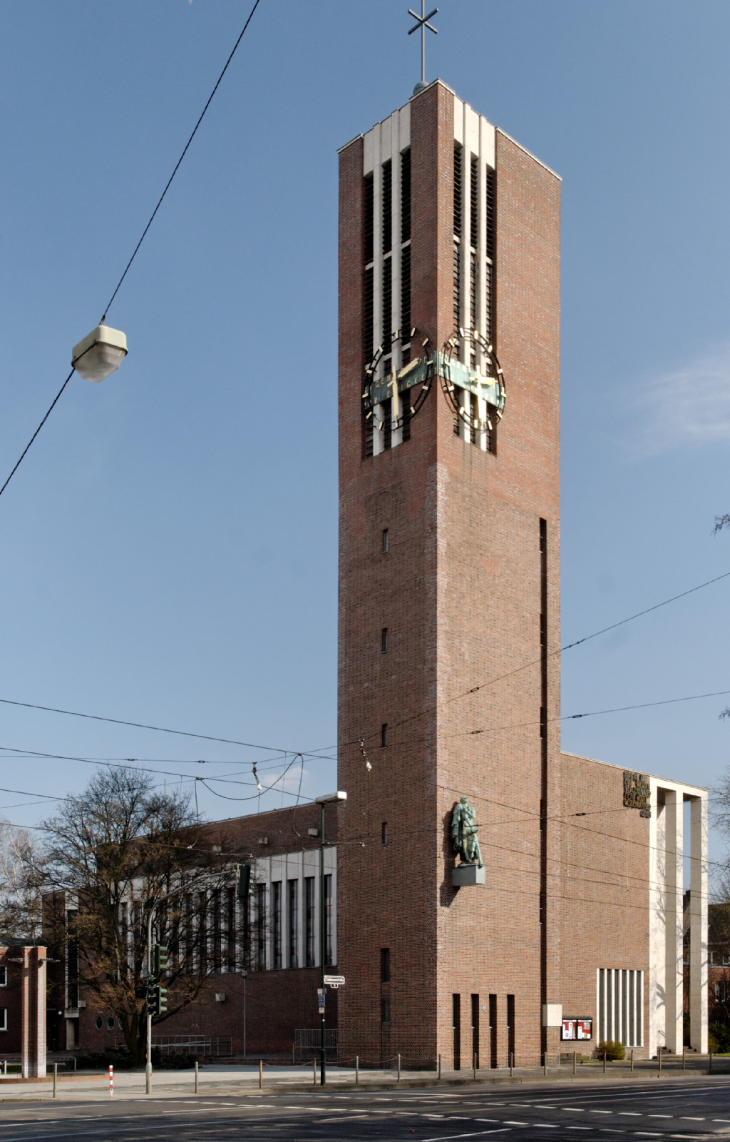 Matthäi Church, Lindemannstraße 70 in Düsseldorf-Düsseltal, Germany This is a photograph of an architectural monument.